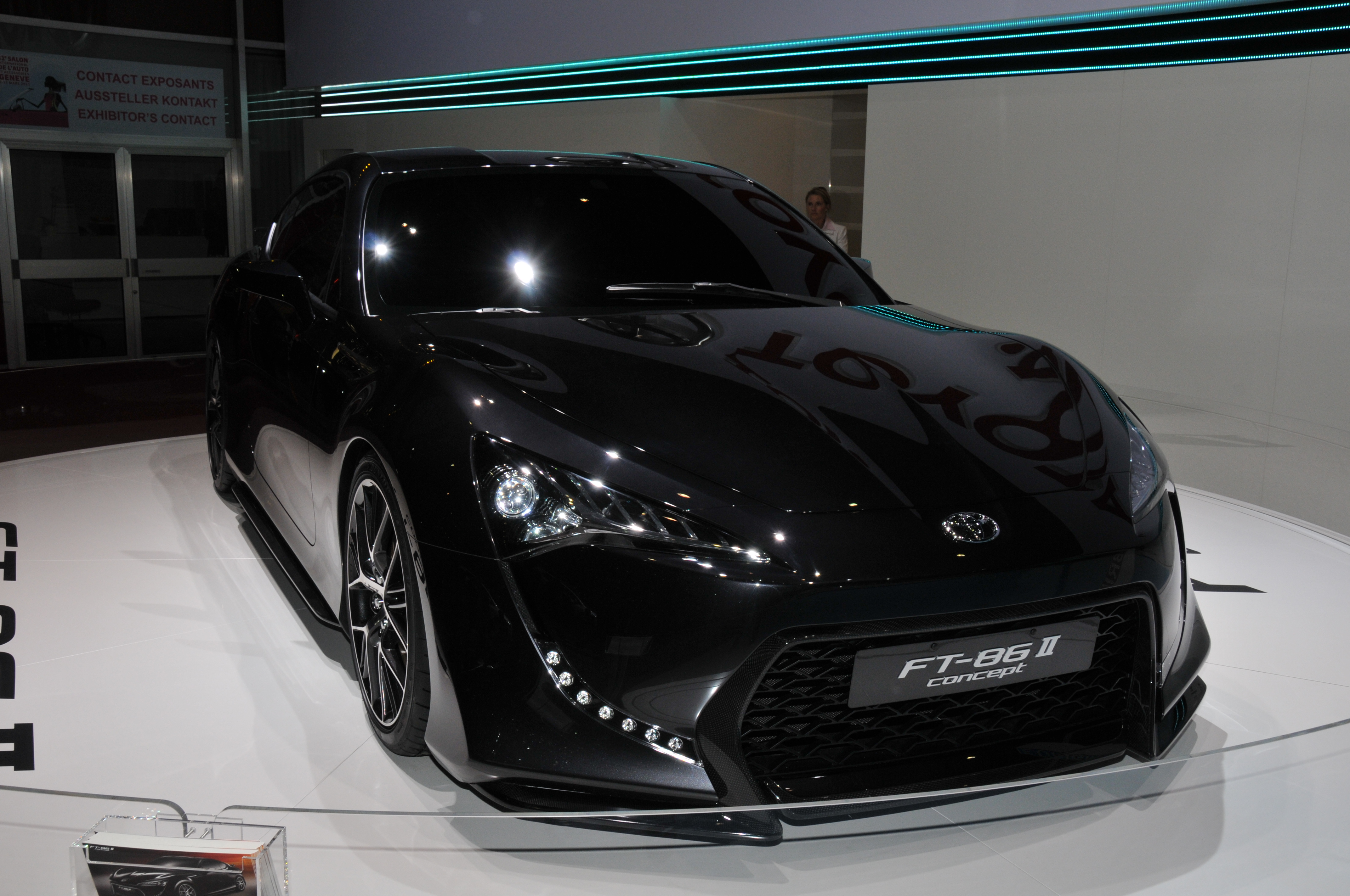 The Toyota FT-86 II was unveiled at the 2011 Geneva Motor Show